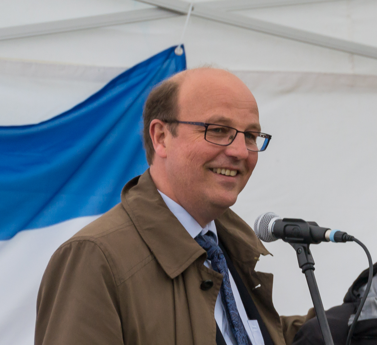 Detmold's mayor Rainer Heller